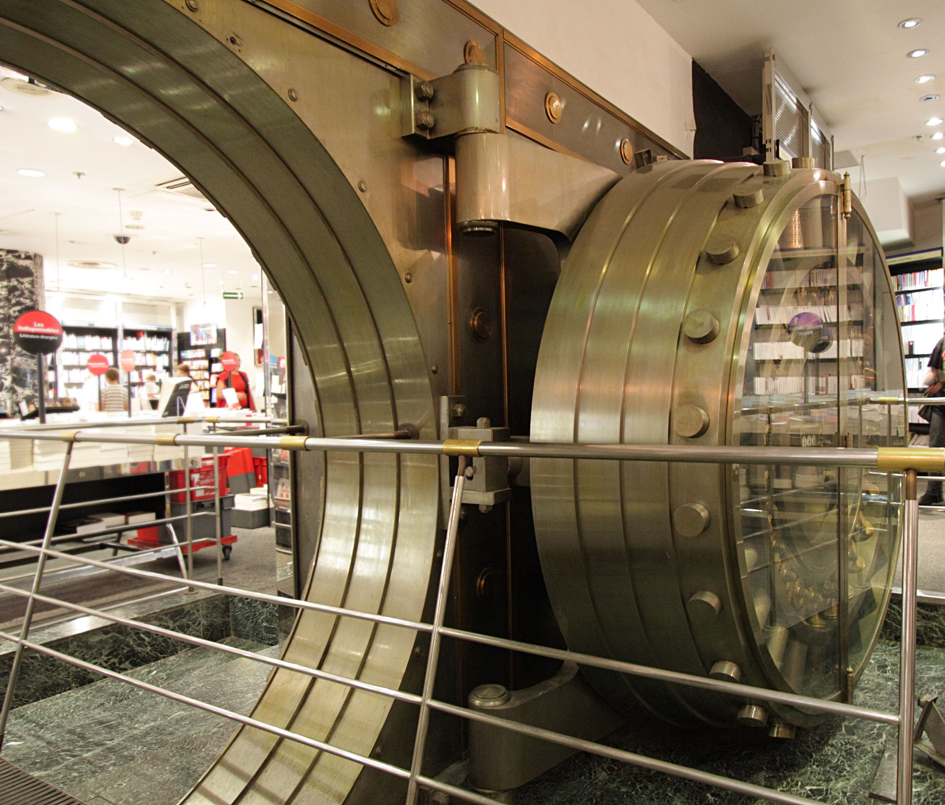 Old bank safe at 52 Champs Elysées, Paris. The building and its safe floor is now a Virgin Megastore.